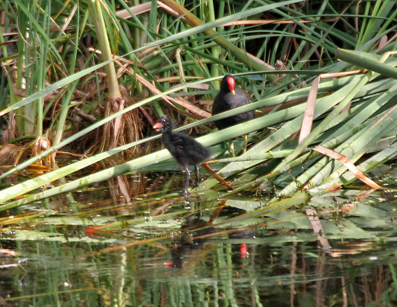 Common Moorhen Gallinula chloropus in Hyderabad , India.